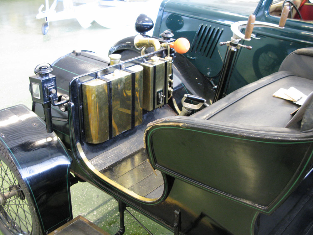 1899 Renault Type A dashboard.Location: Laganland Bilmuseum, Sweden